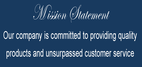 Sample mission statement